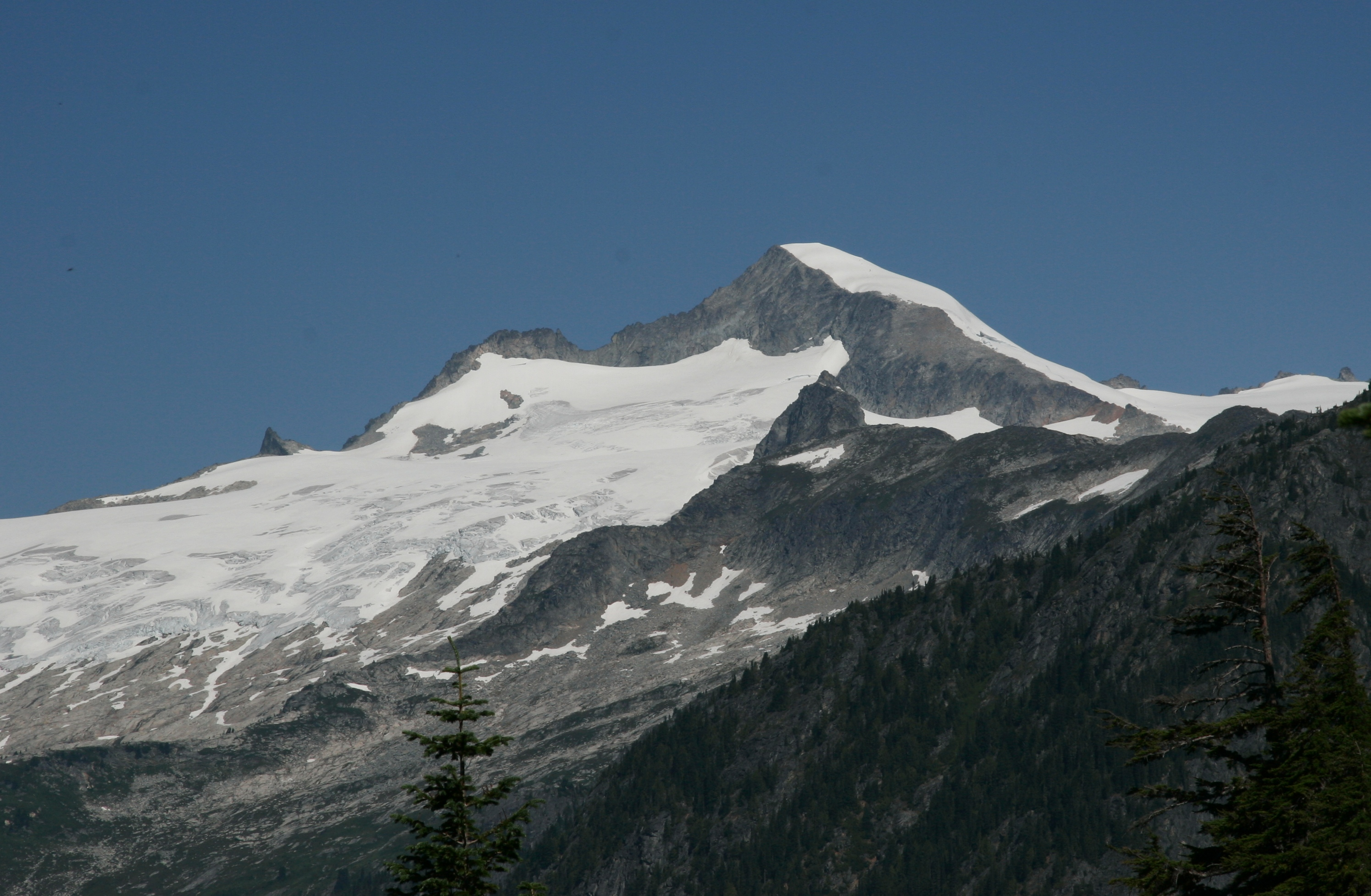 Eldorado Peak in the North Cascades of Washington, United States, from near Cascade Pass